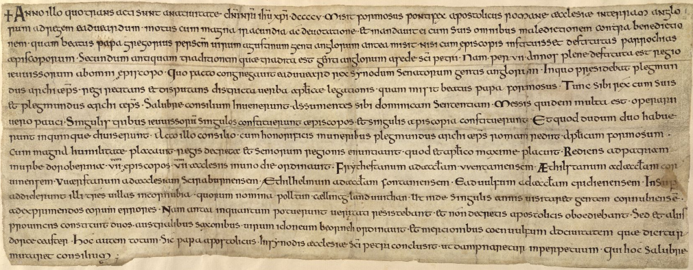 Text of Plegmund narrative (BL_Add_MS_7138, f_1r)